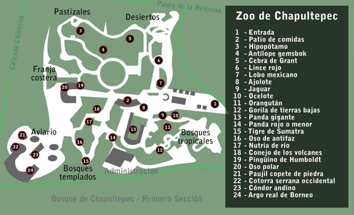 Chapultepec Zoo, First Section of Chapultepec Park, Mexico City, Mexico